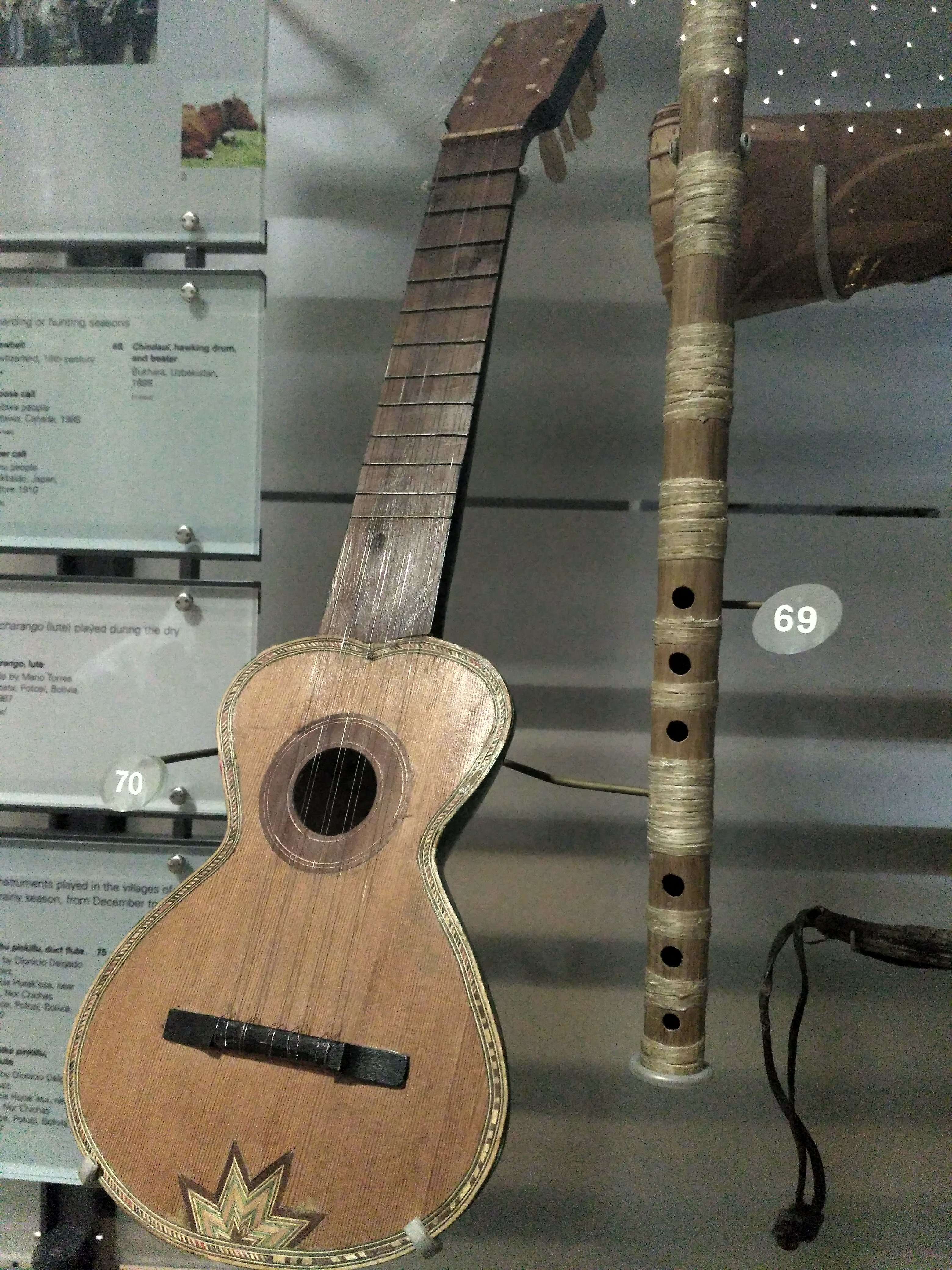 A set of images of musical instruments from the Horniman Museum in London, UK. Taken by Jo Dusepo 24/5/19